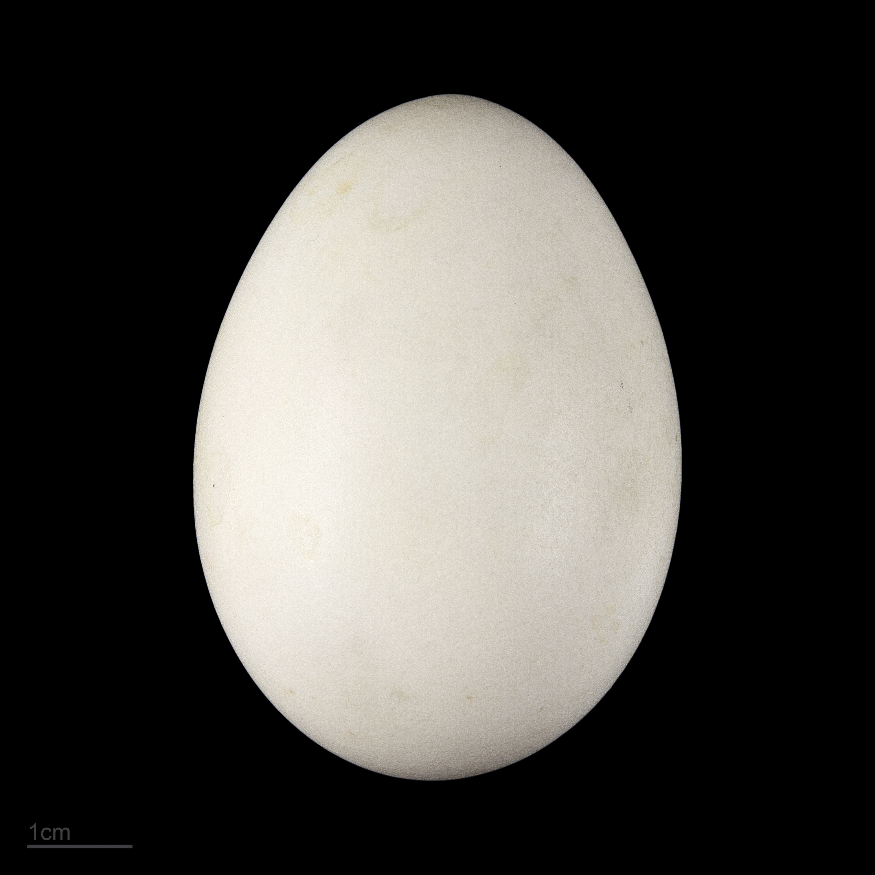 Eggs of gentoo penguin collection of Jacques Perrin de Brichambaut.